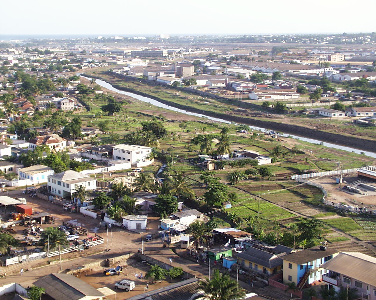 Skyline of Accra (en), Ghana